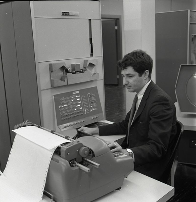 Ed Fredkin working on PDP-1. This work is in the public domain because it was published in the United States between 1924 and 1963 and although there may or may not have been a copyright notice, the copyright was not renewed.